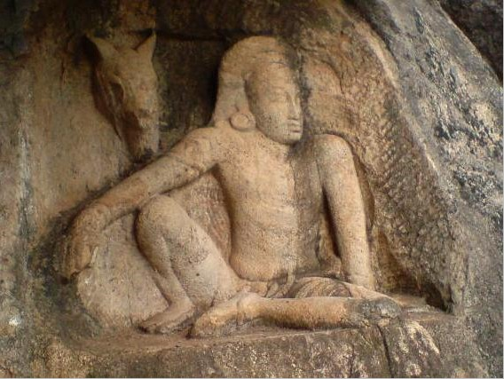 Man and the Horse head carving in the Isurumuniya Viharaya